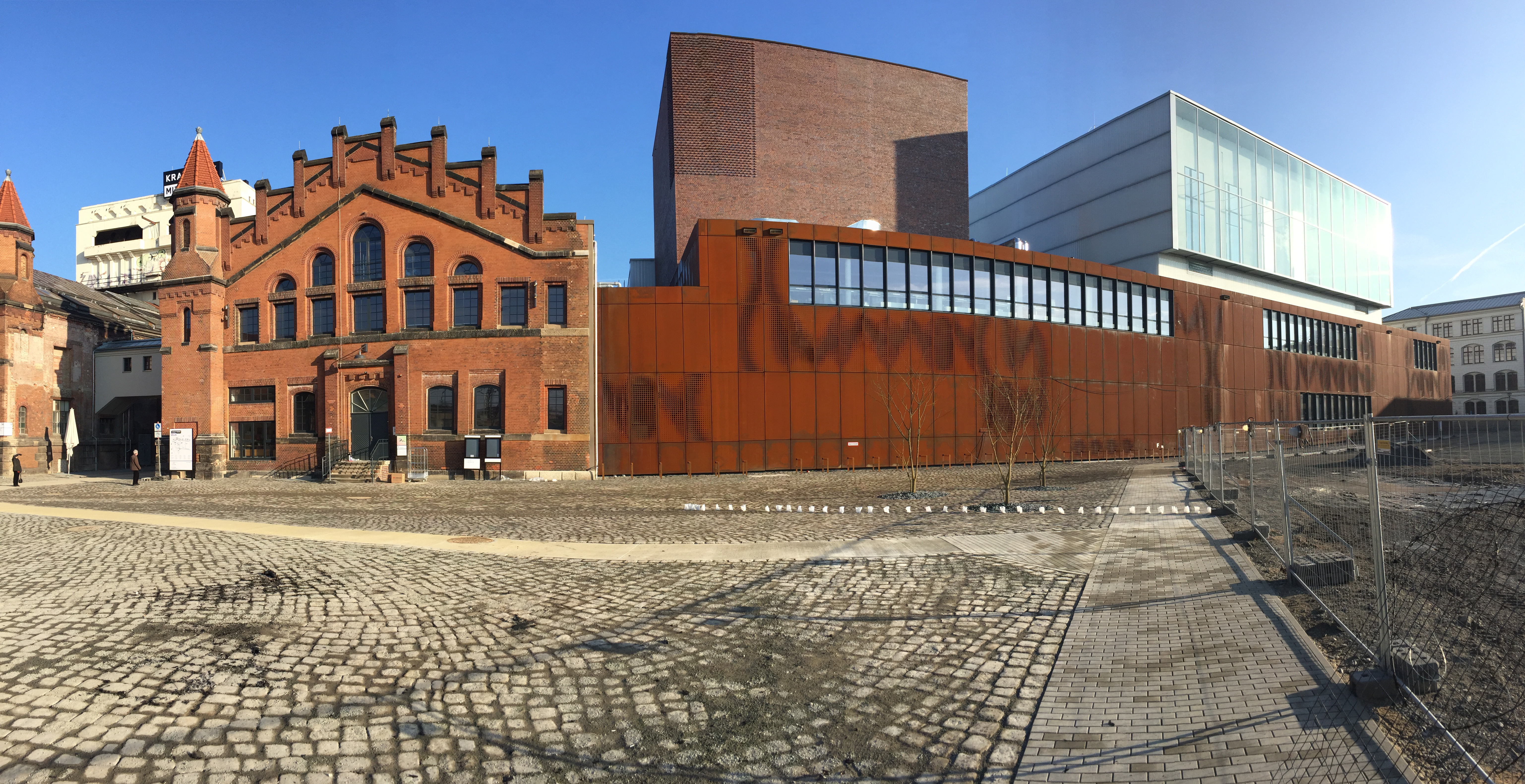 View from Koenneritzstr. to the new Staatsoperette